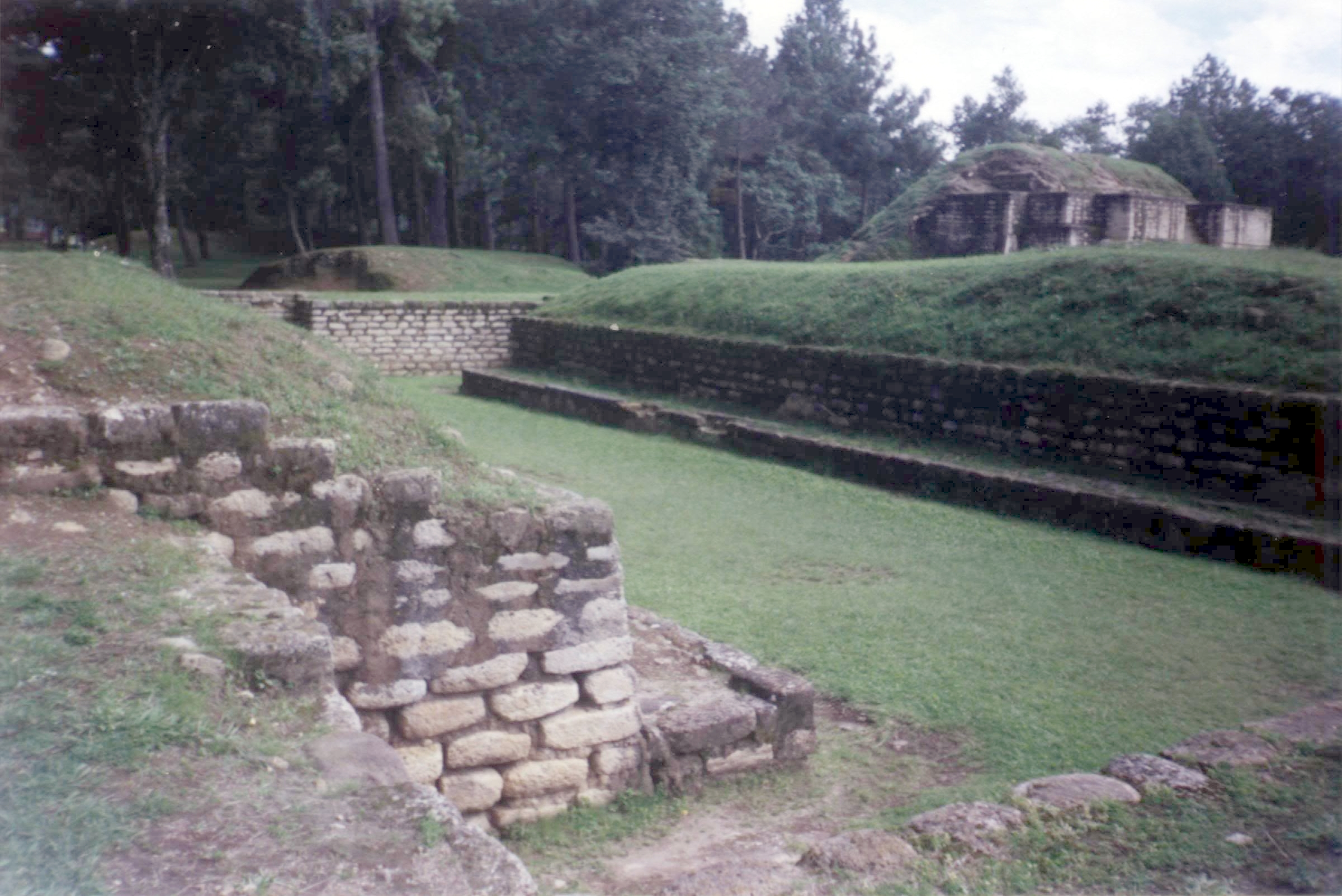 Ballcourt SW of Plaza A at the ruins of Iximche, Late Postclassic capital of the Kaqchikel Maya. Tecpán Guatemala, Chimaltenango Department, Guatemala.